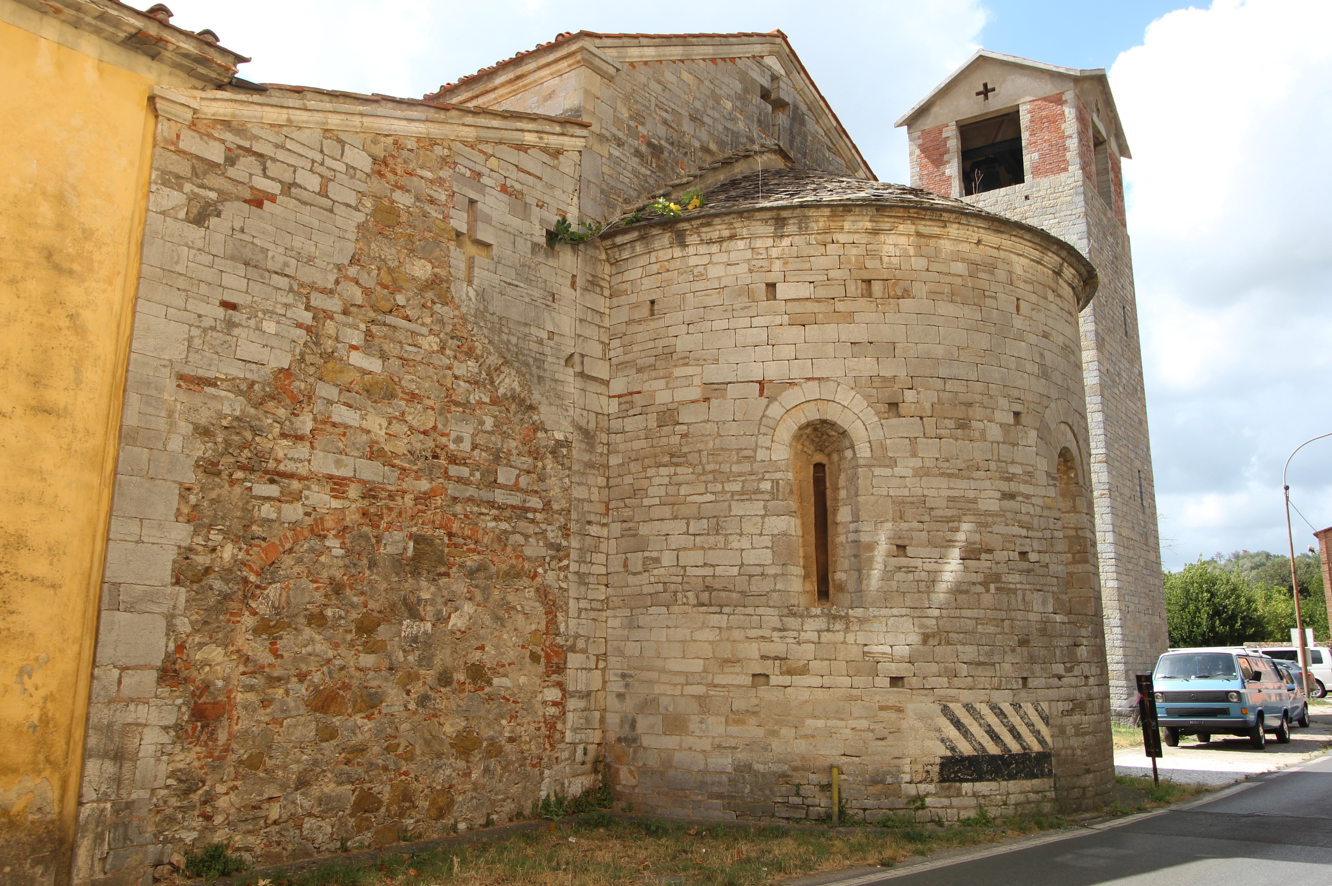 Church Santa Maria e San Giovanni Battista, Pugnano, hamlet of San Giuliano Terme, Province of Pisa, Tuscany, Italy